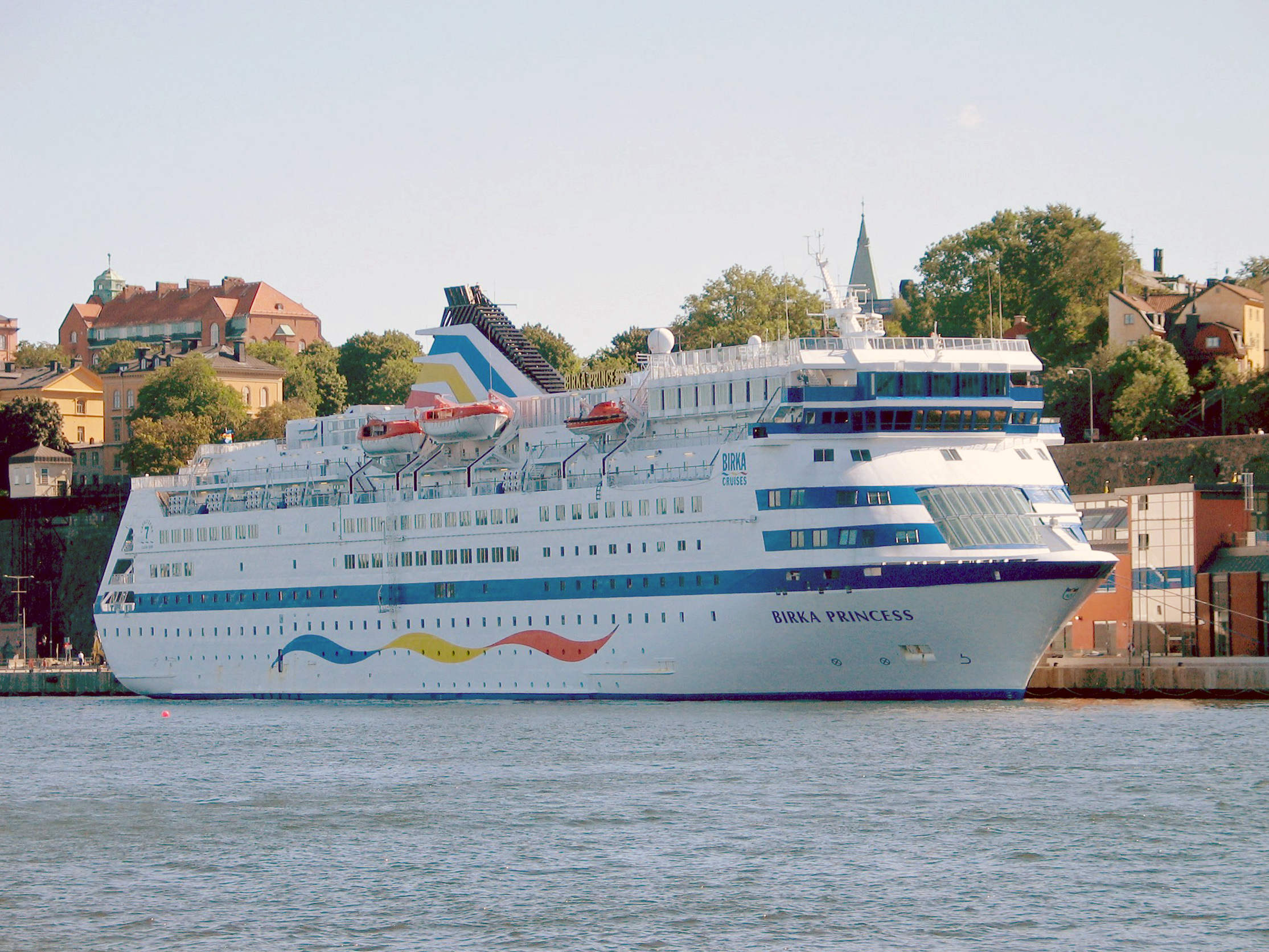 M/S Birka Princess, photo taken in Stockholm, Sweden.